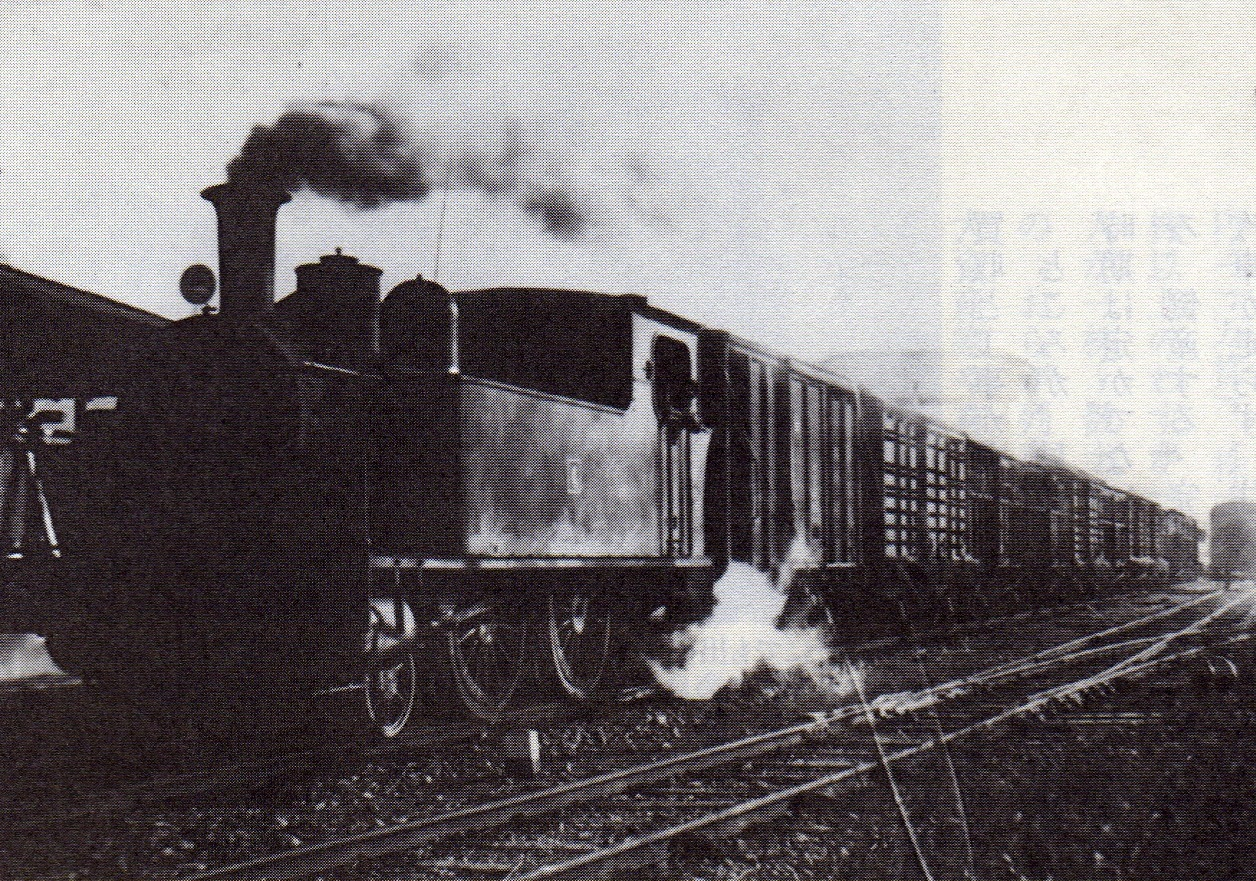 Train of Izushi Railway in Hyogo prefecture Japan. Izushi Railway suspended its operation in 1944 and officially abondoned in 1970.